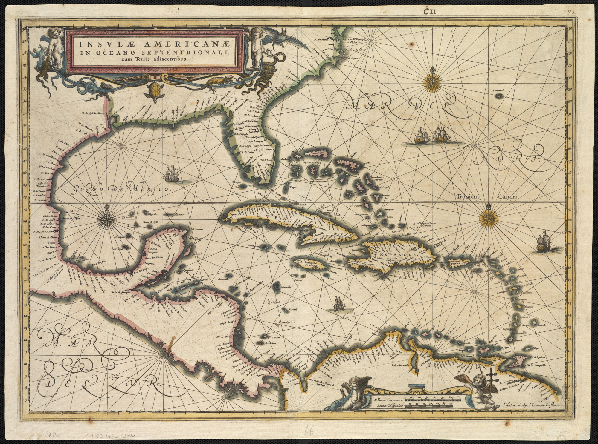 Zoom into this map at . Author: Jansson, Jan Publisher: Apud Ioannem Ian[ss]onium Date: [1636] Location: West Indies Scale: Scale not given Call Number: G4900 1636.J36